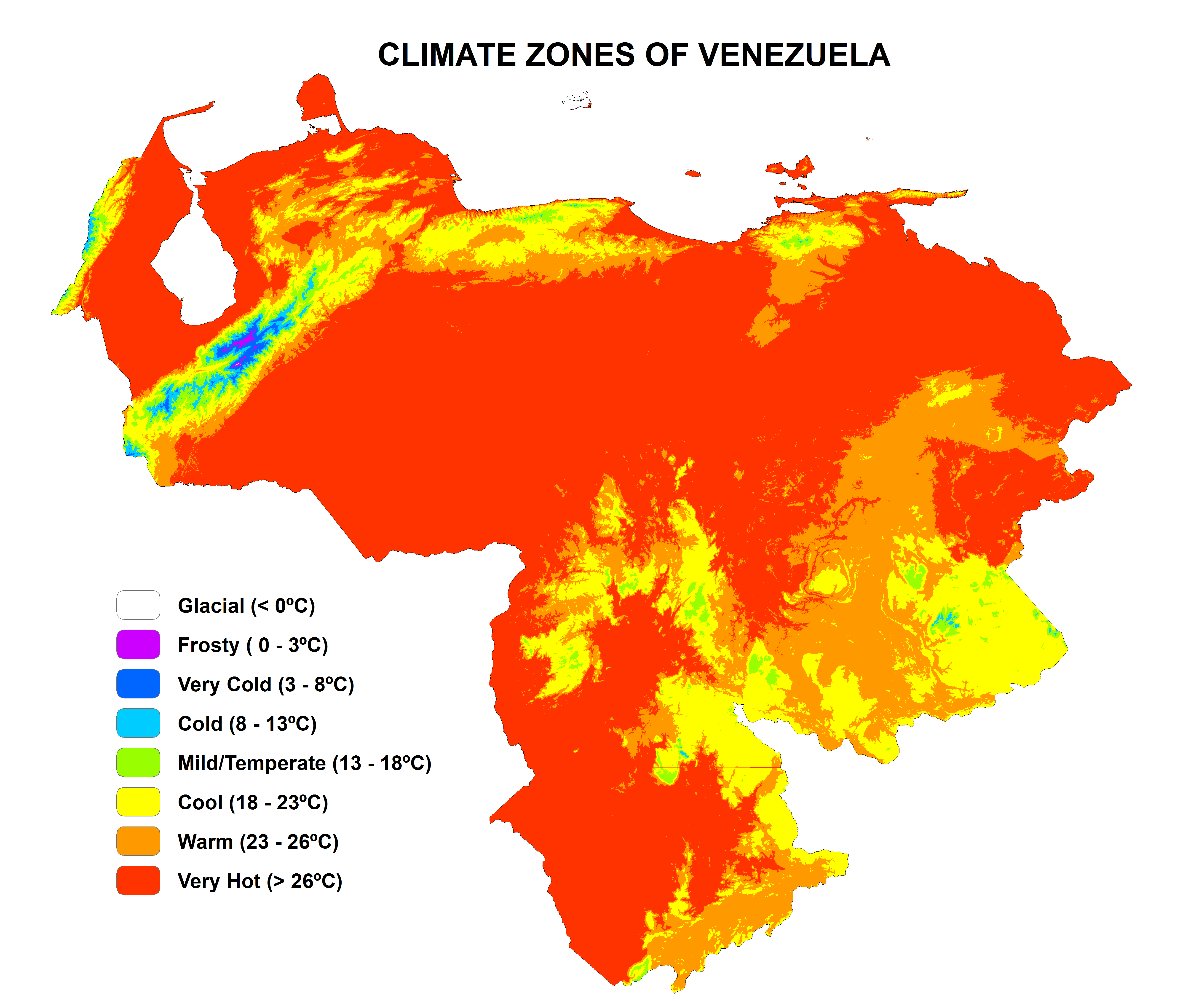 Venezuelan climatic types, according to their thermal floors.